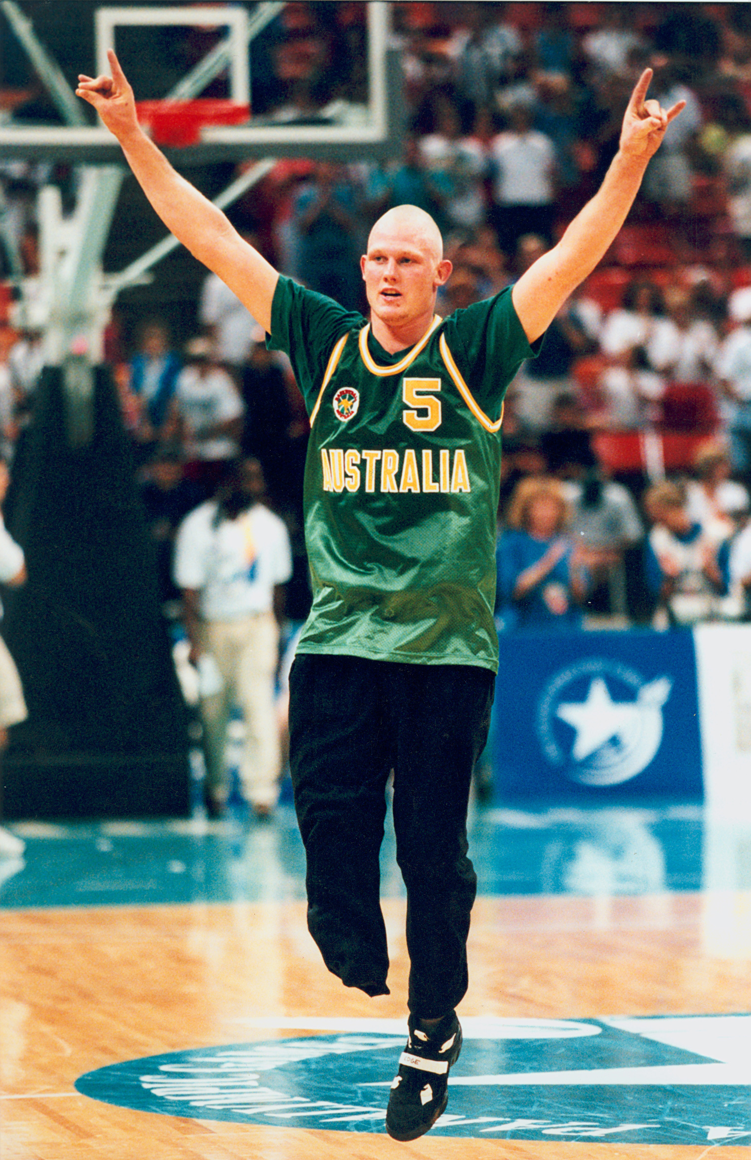 Australian men's wheelchair basketballer Troy Sachs is out of the chair and off the floor as he celebrates Australia's gold medal win at the 1996 Atlanta Paralympic Games